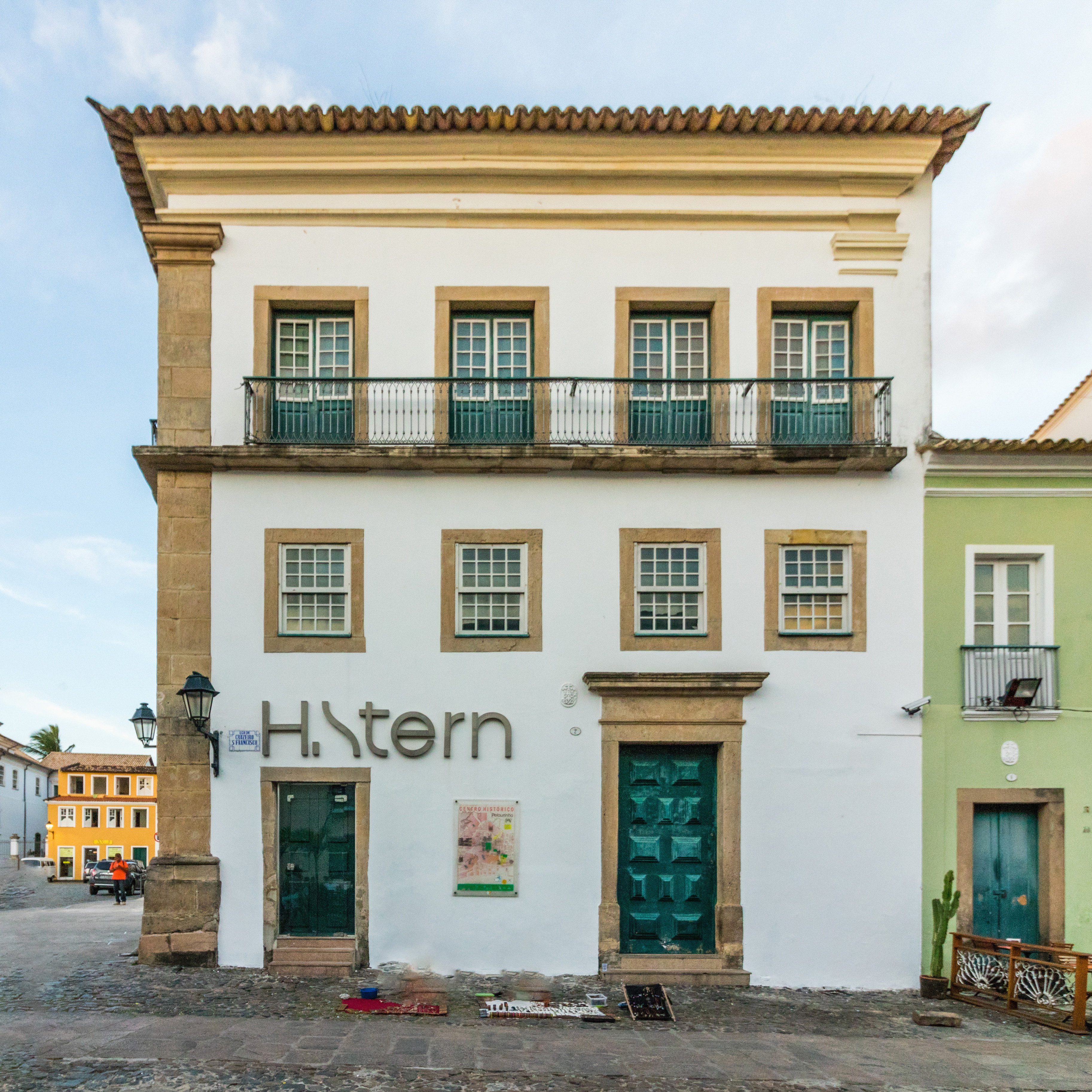 House at Praça 15 de Novembro, 17, or House at Praça Anchieta, 2. Salvador, Bahia, Brazil.